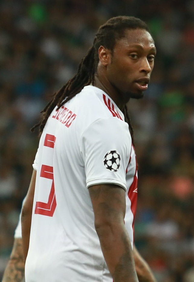 Rúben Semedo with Olympiacos FC in a Champions League qualifying game against FC Krasnodar.